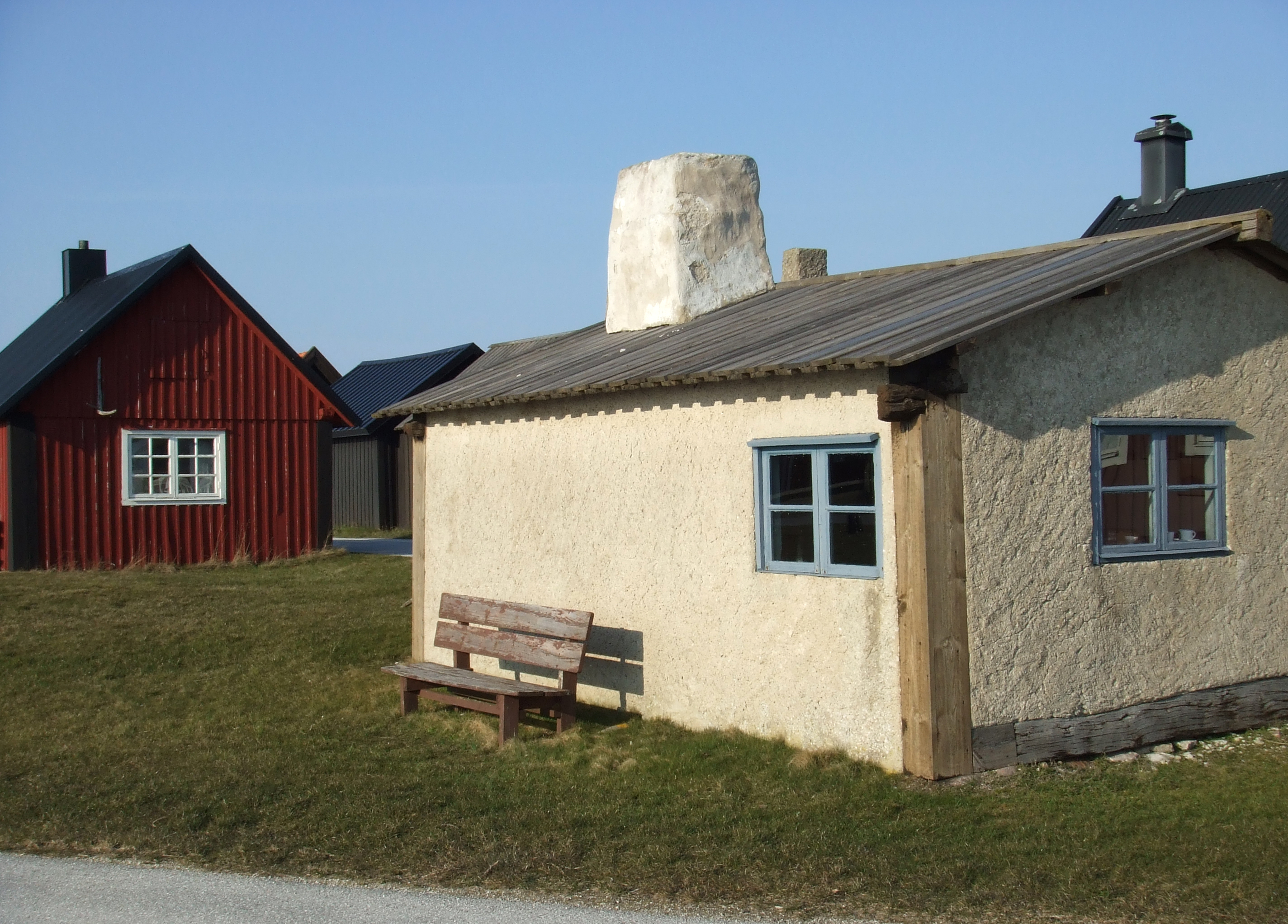 The fishing cottage that used to belong to Anna Chartlotta Ganström (30 March 1837 – 14 September 1912) also known as Fälting-Lotte, female fisherman in Gnisvärd.